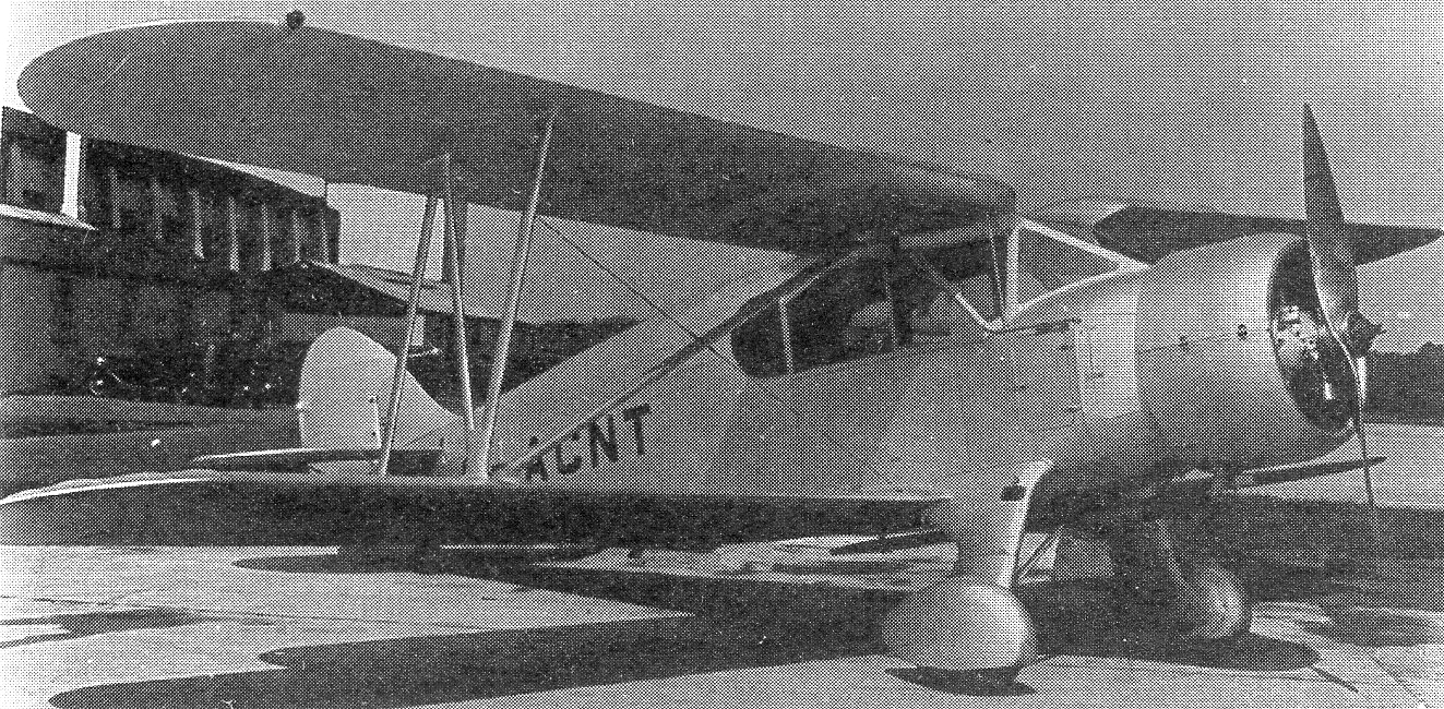 The prototype Avro 641 Commodore, G-ACNT, May 1934, with Armstrong Siddeley Lynx engine.